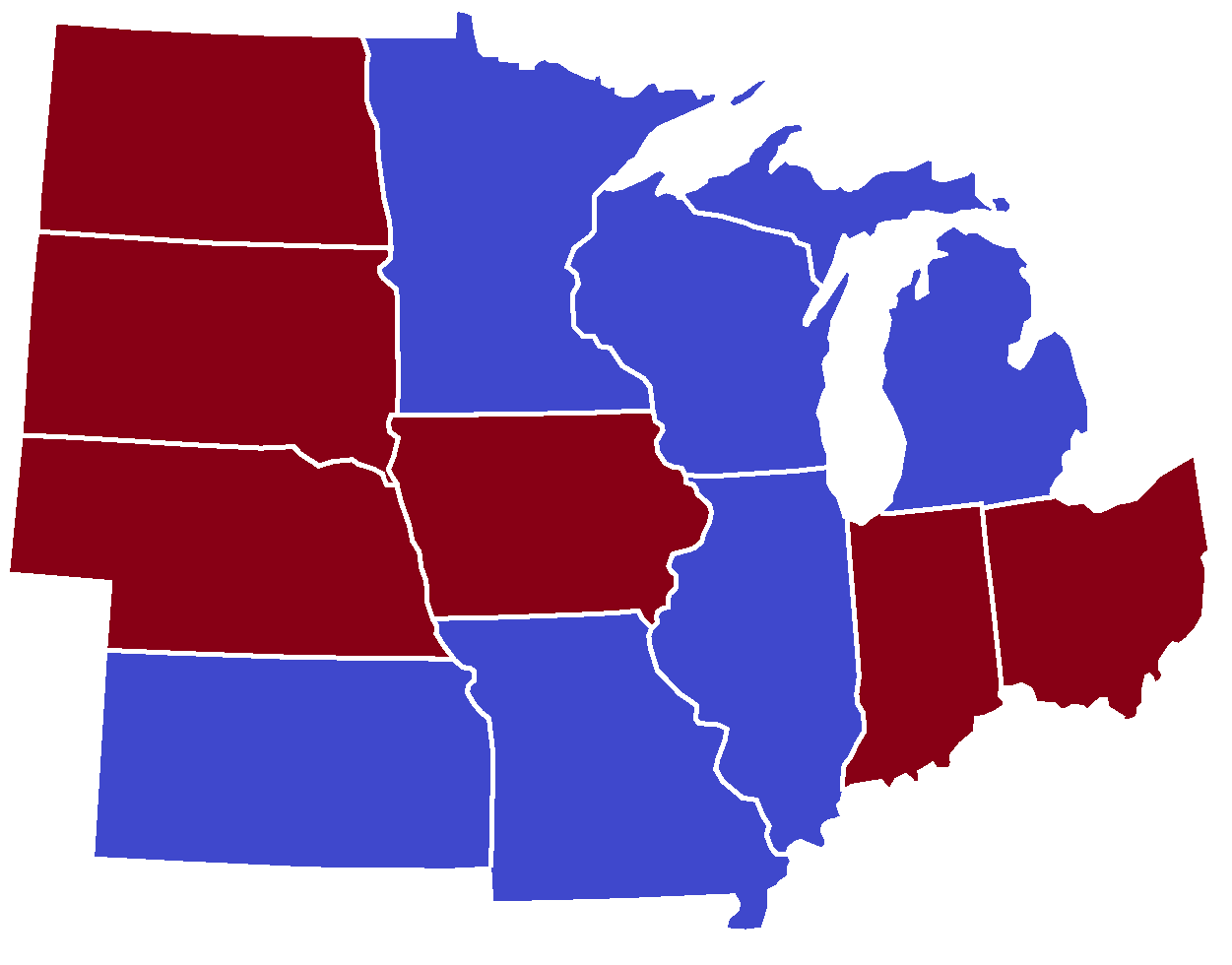 Midwestern governors by party affiliation as of January 2020. Modified from the original by Zedgefan